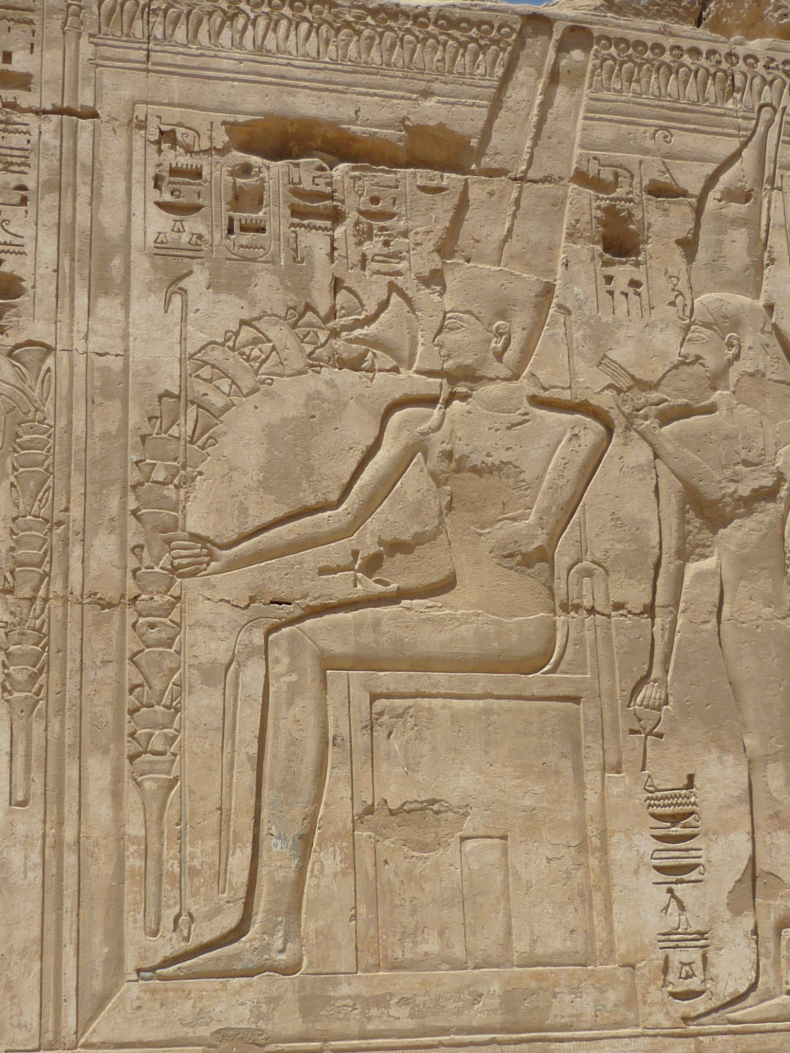 Wall relief of Amun smelling papyrus, mortuary temple of Ramses III, Medinet Habu, Theban Necropolis, Egypt